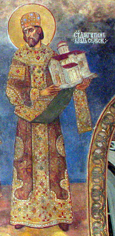 Fresco of Stefan Dragutin in Ruzica church in Belgrade